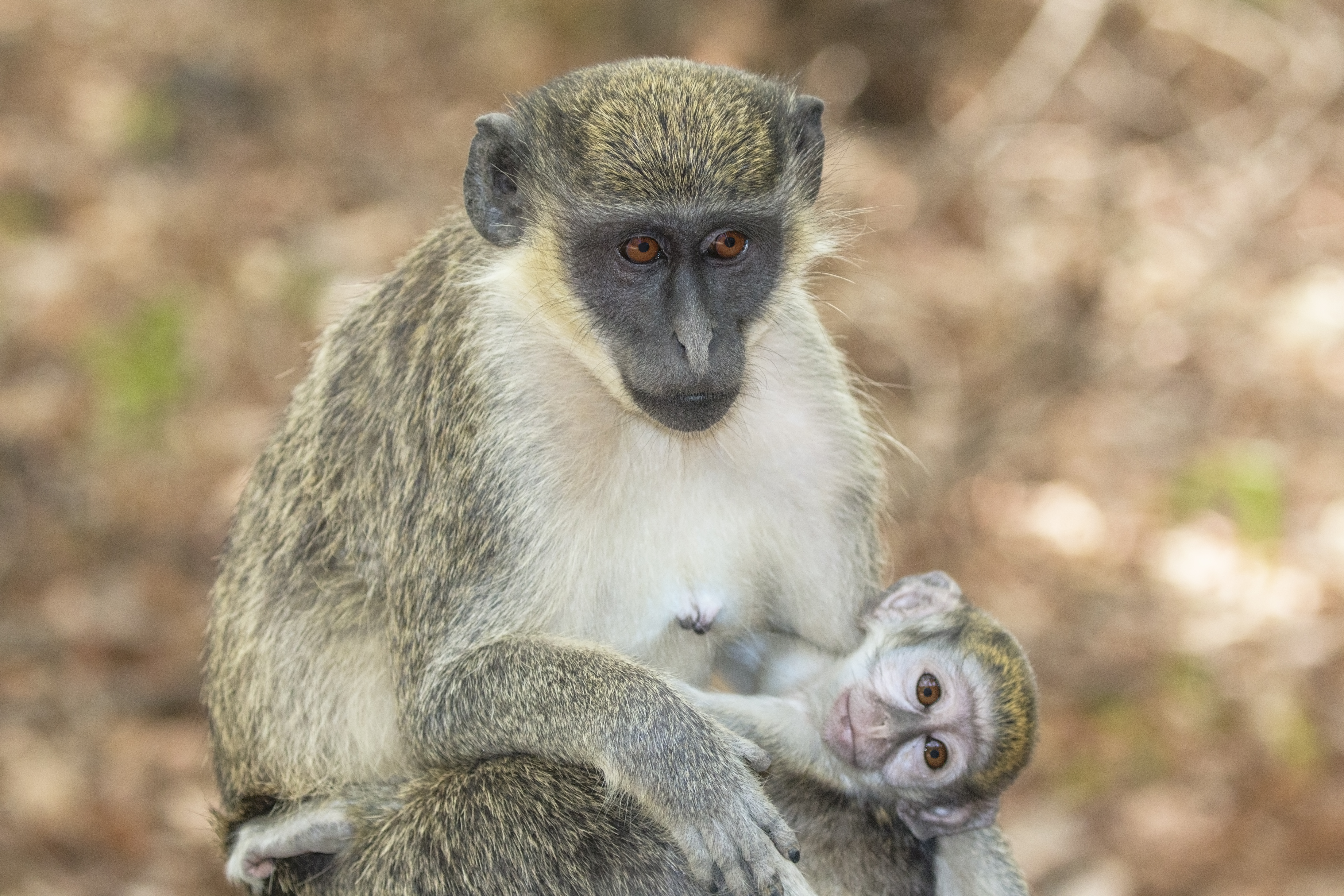 Green monkey (Chlorocebus sabaeus), The Gambia